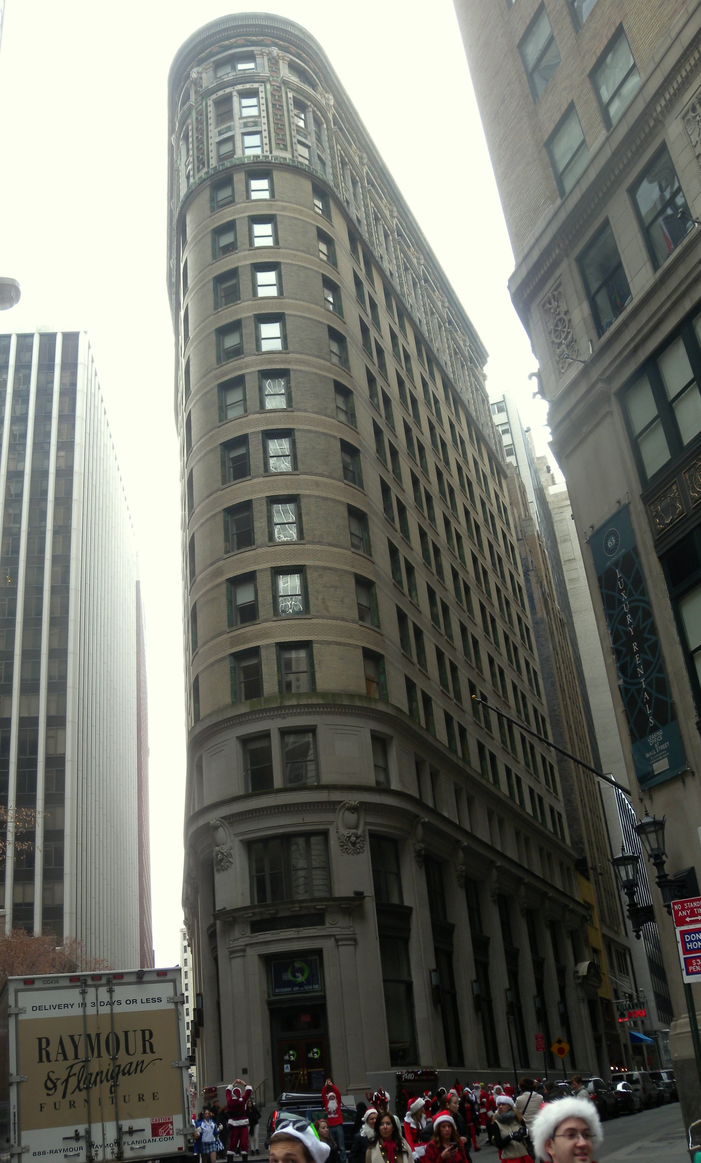 Looking west at Beaver Building on a cloudy day.